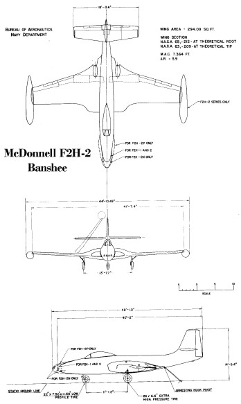 3-side-view of a McDonnell F2H-2 Banshee